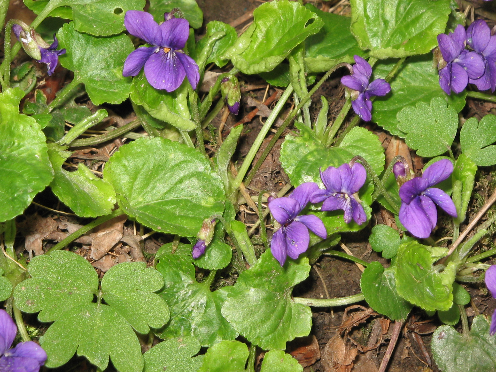 Viola odorata close-up